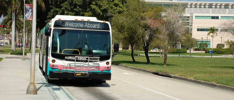 Colleges and Universities